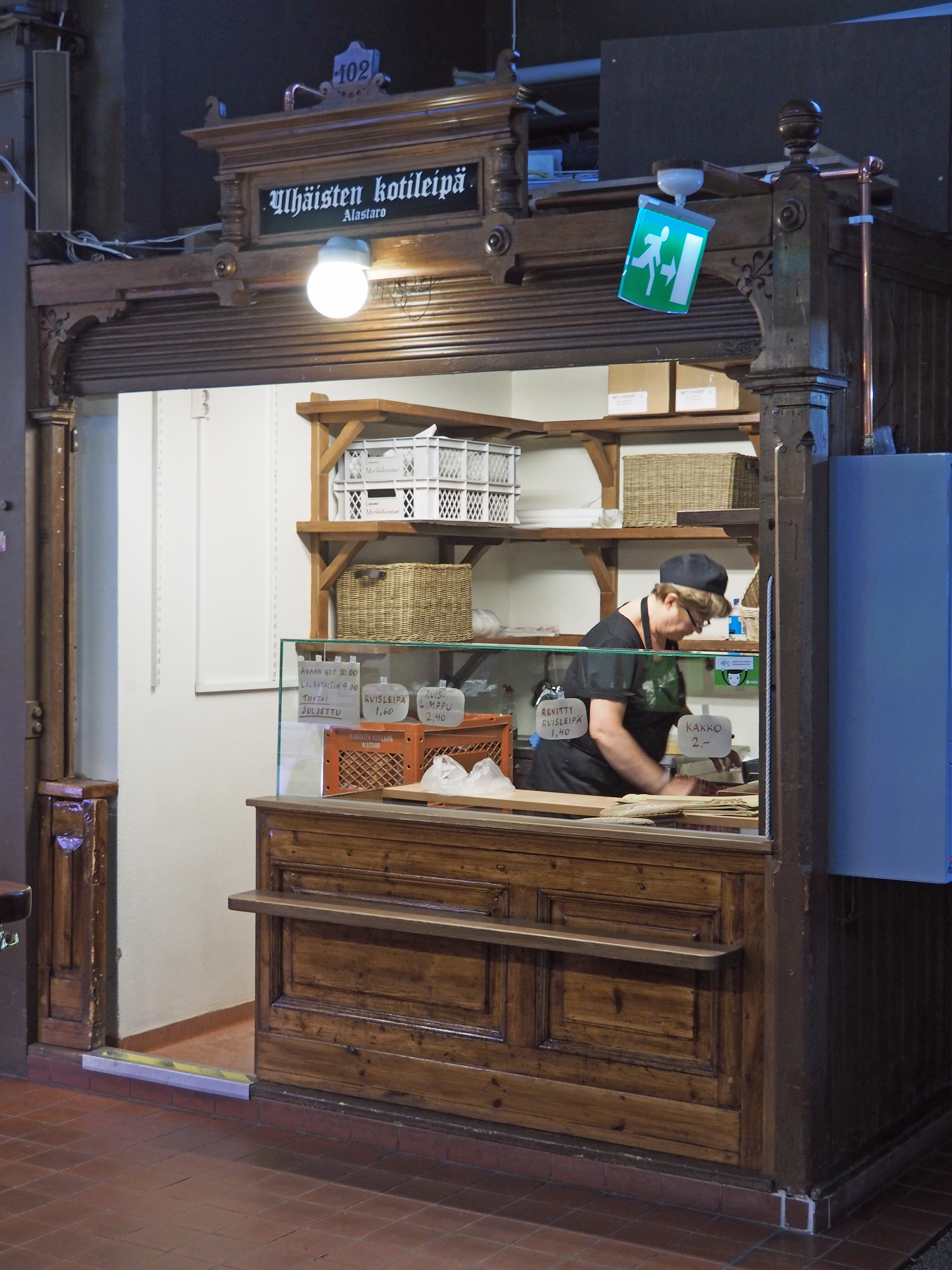 Turku Market Hall Interieur